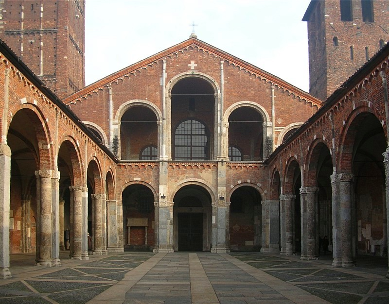 Milano Basilica Sant'Ambrogio Picture taken by user:Idéfix, 21 jan 2006